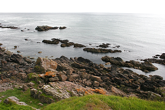 Craigmaroinn Craigmaroinn is an offshore reef just south of Portlethen, much of it u8nder water at this state of the tide.